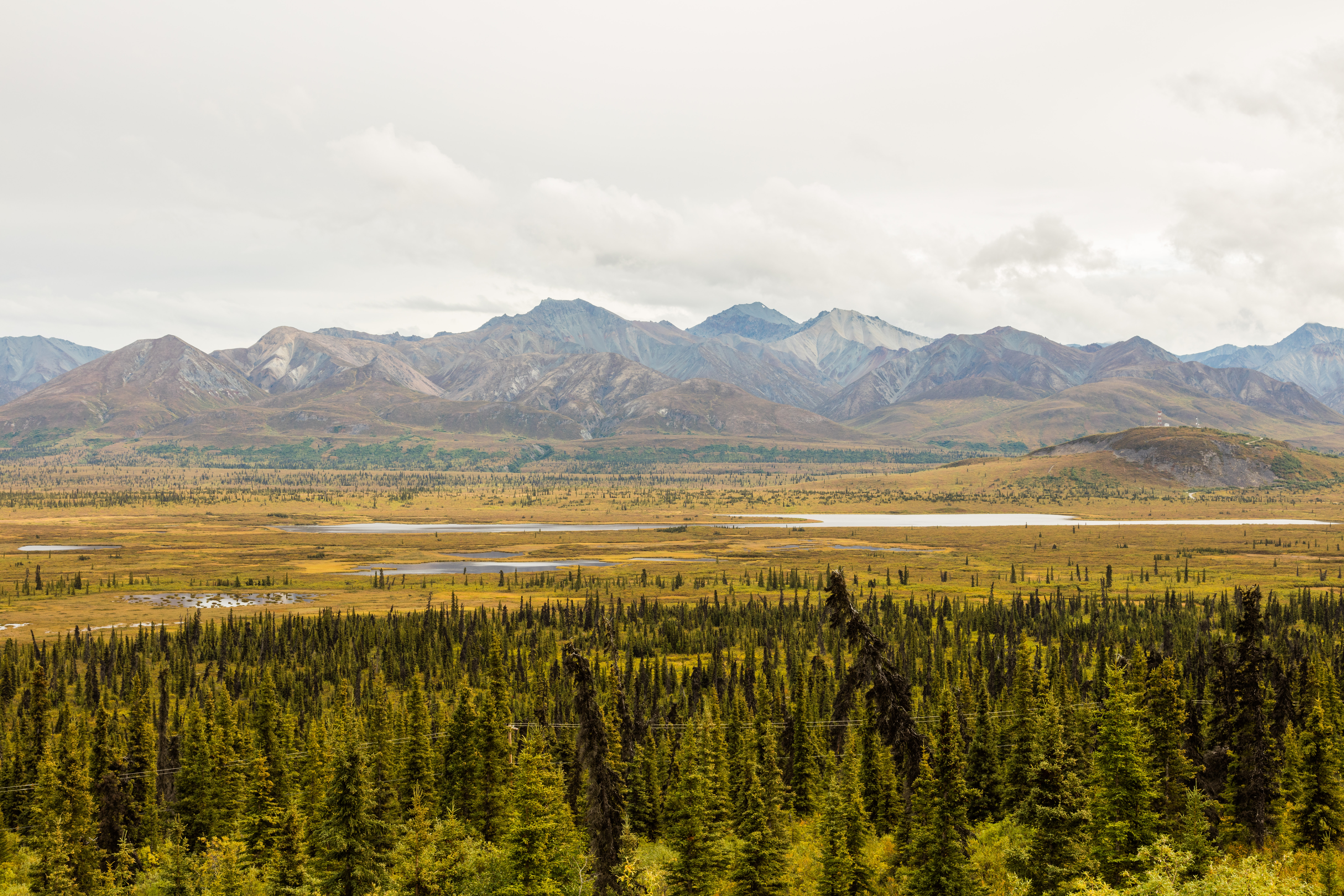 Landscape in Sutton, Alaska, United States